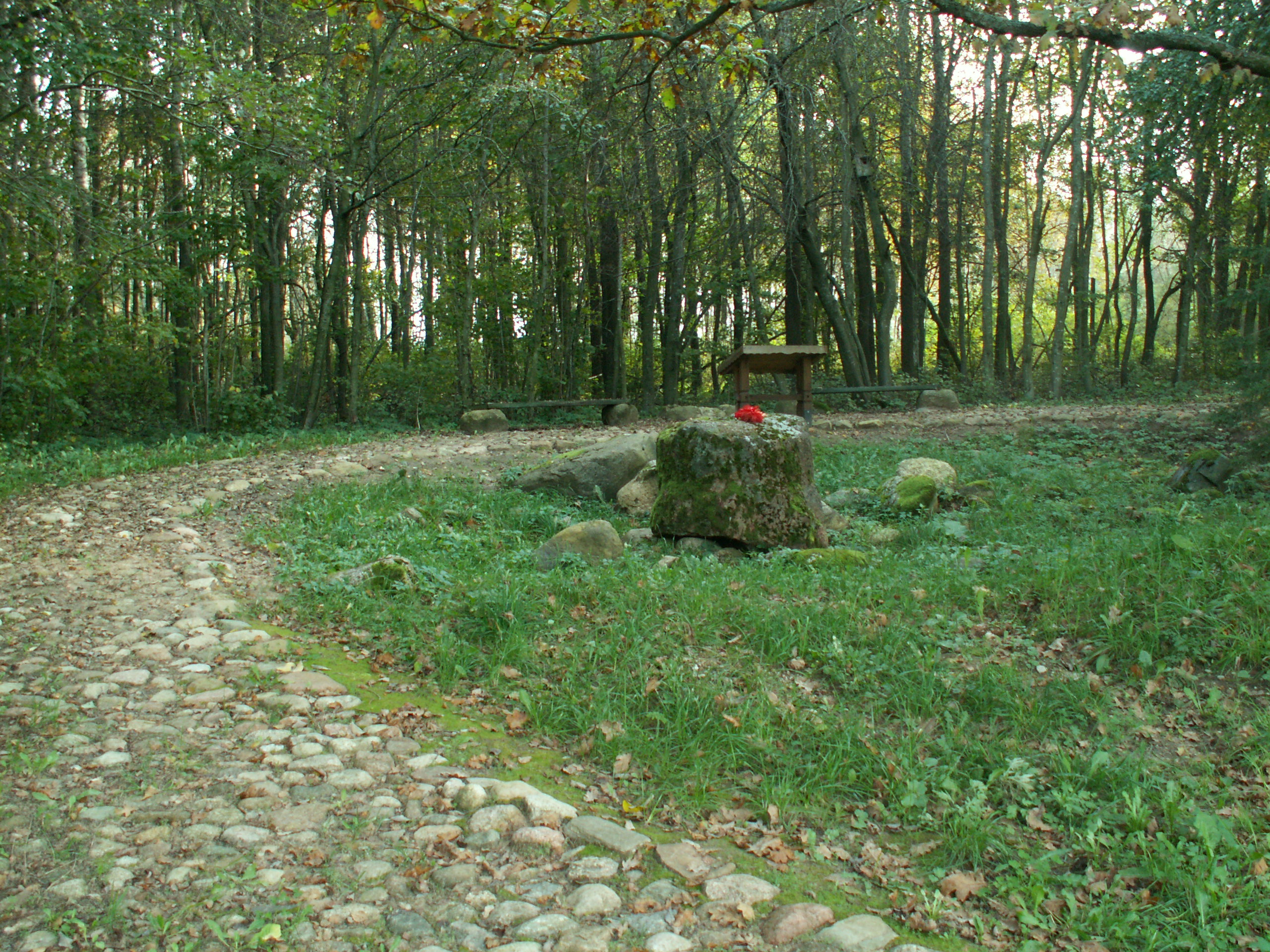 Šilalė stone, Skuodas district, Lithuania